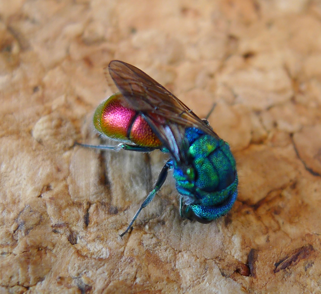 Windowsill deaths... Cradley,Malvern, Worcs. SO7347